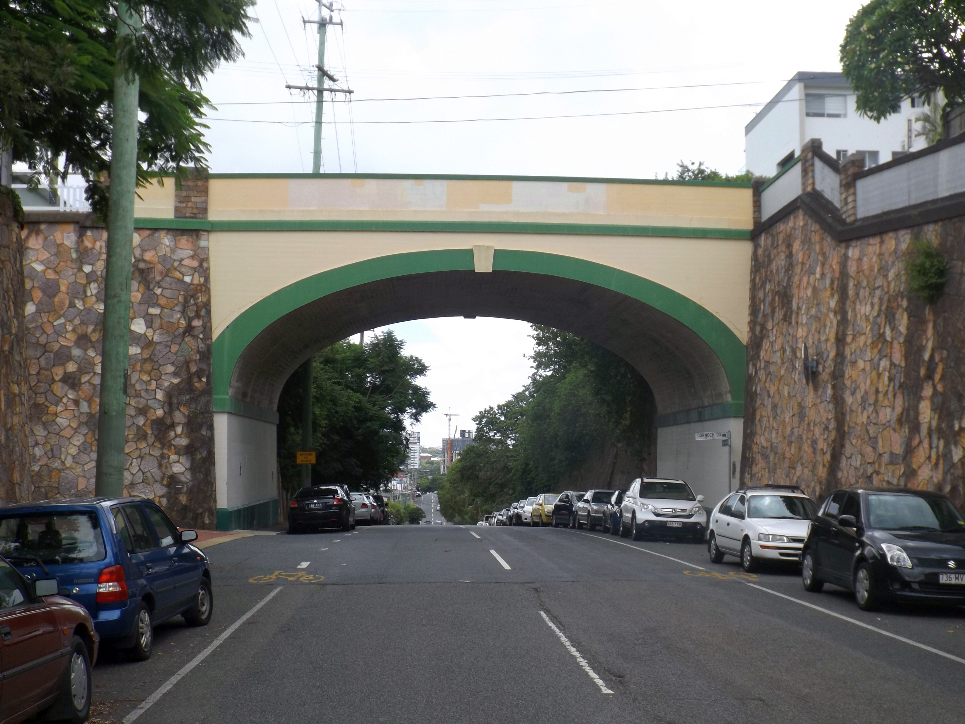 Photo of Dornoch Terrace Bridge seen from the south along Boundary Road in West End, Brisbane, Queensland, Australia.